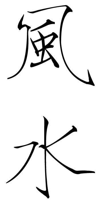 Chinese characters for Feng Shui